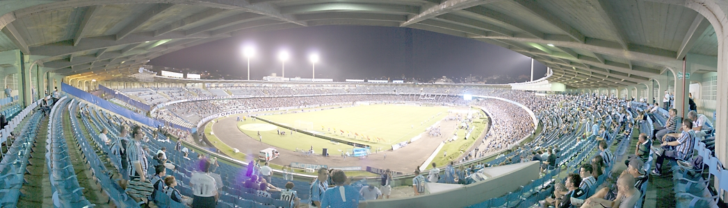 Monumental Olympic Stadium